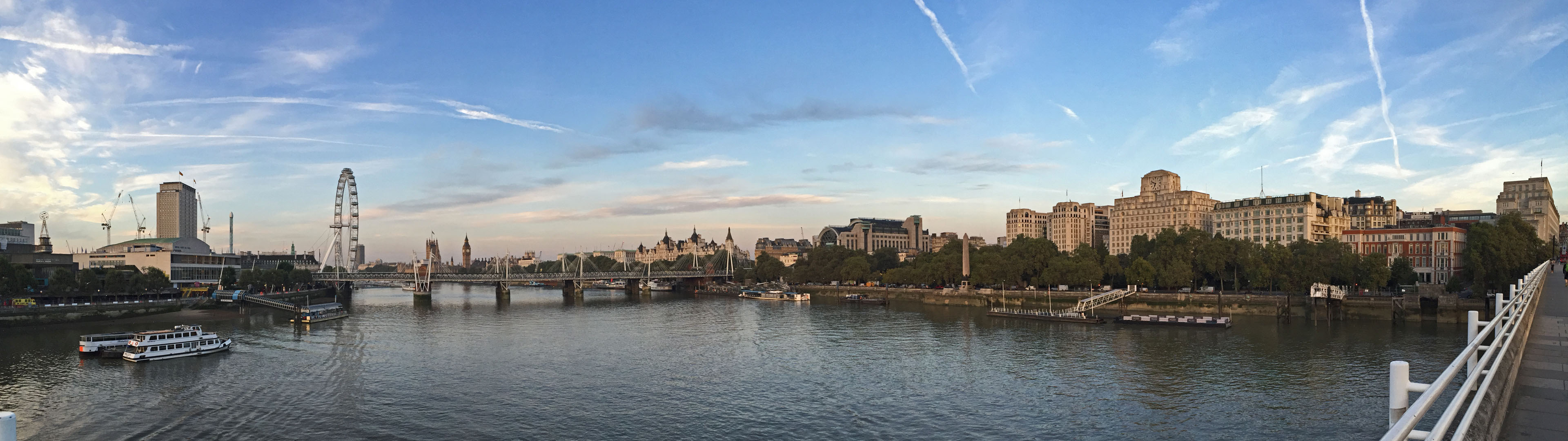 Taken with an iPhone using the panoramic feature.